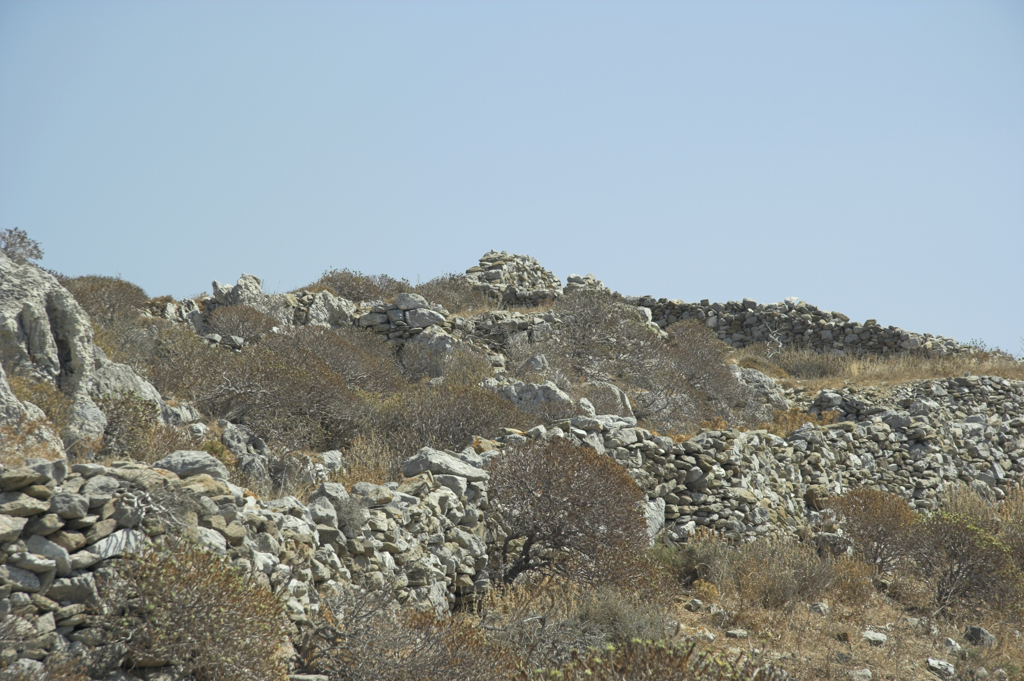 Ancient Aigiale (Aigiali). Not much left here. Older and newer walls.